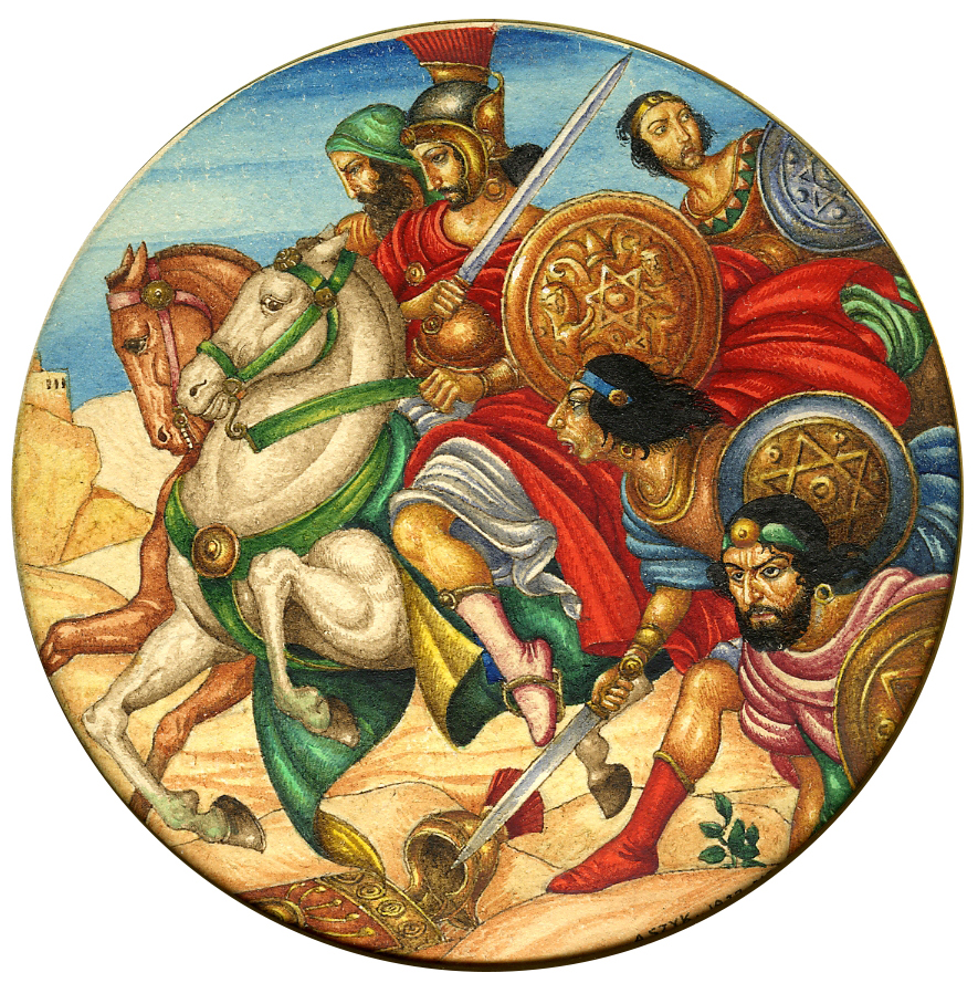 Arthur Szyk,1927, Bar Kochba, watercolor and gouache on paper.